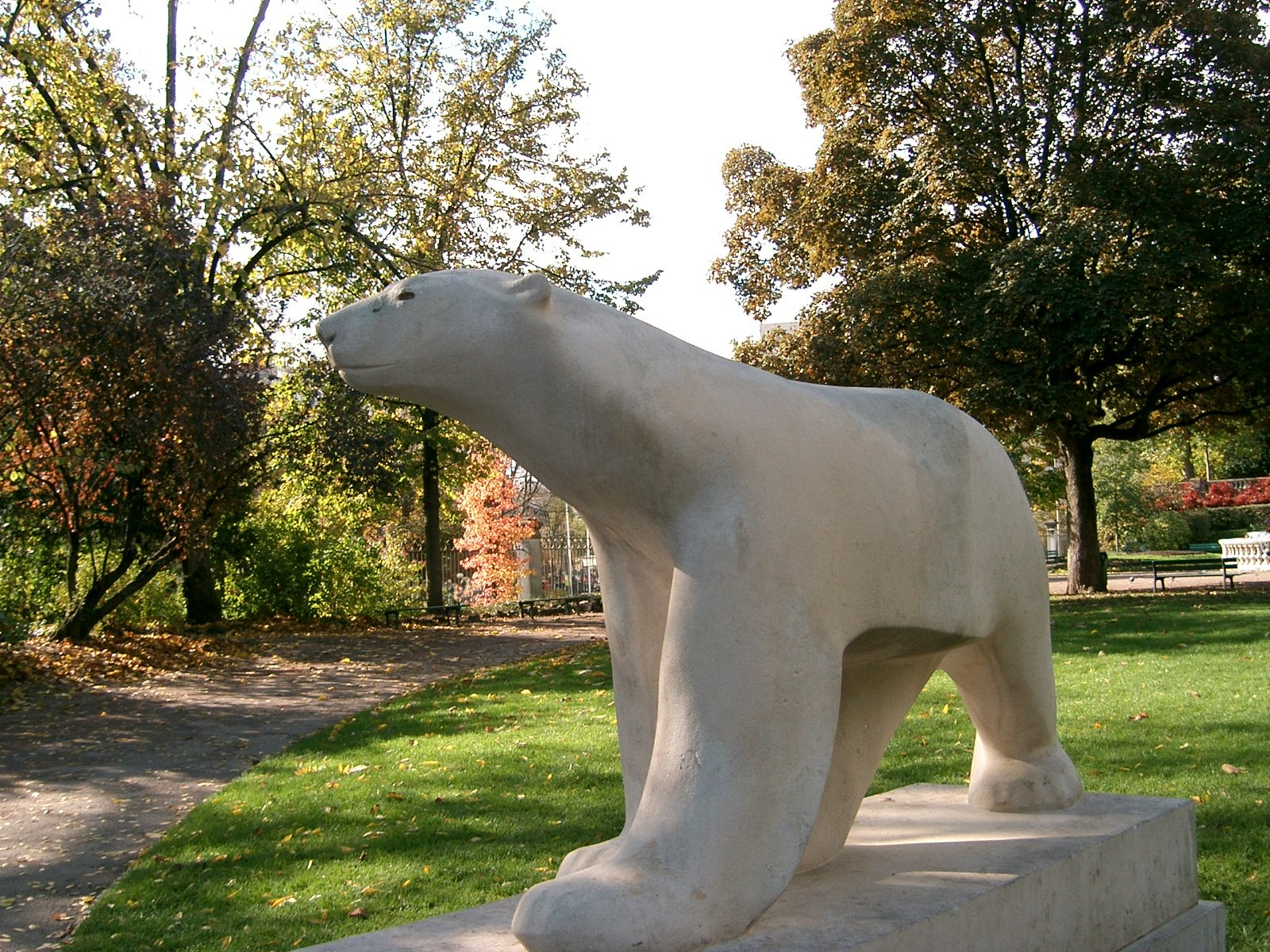 "White Bear" François Pompon (May 9, 1855 – May 6, 1933) self made PRA public garden (Jardin Darcy Dijon - France)